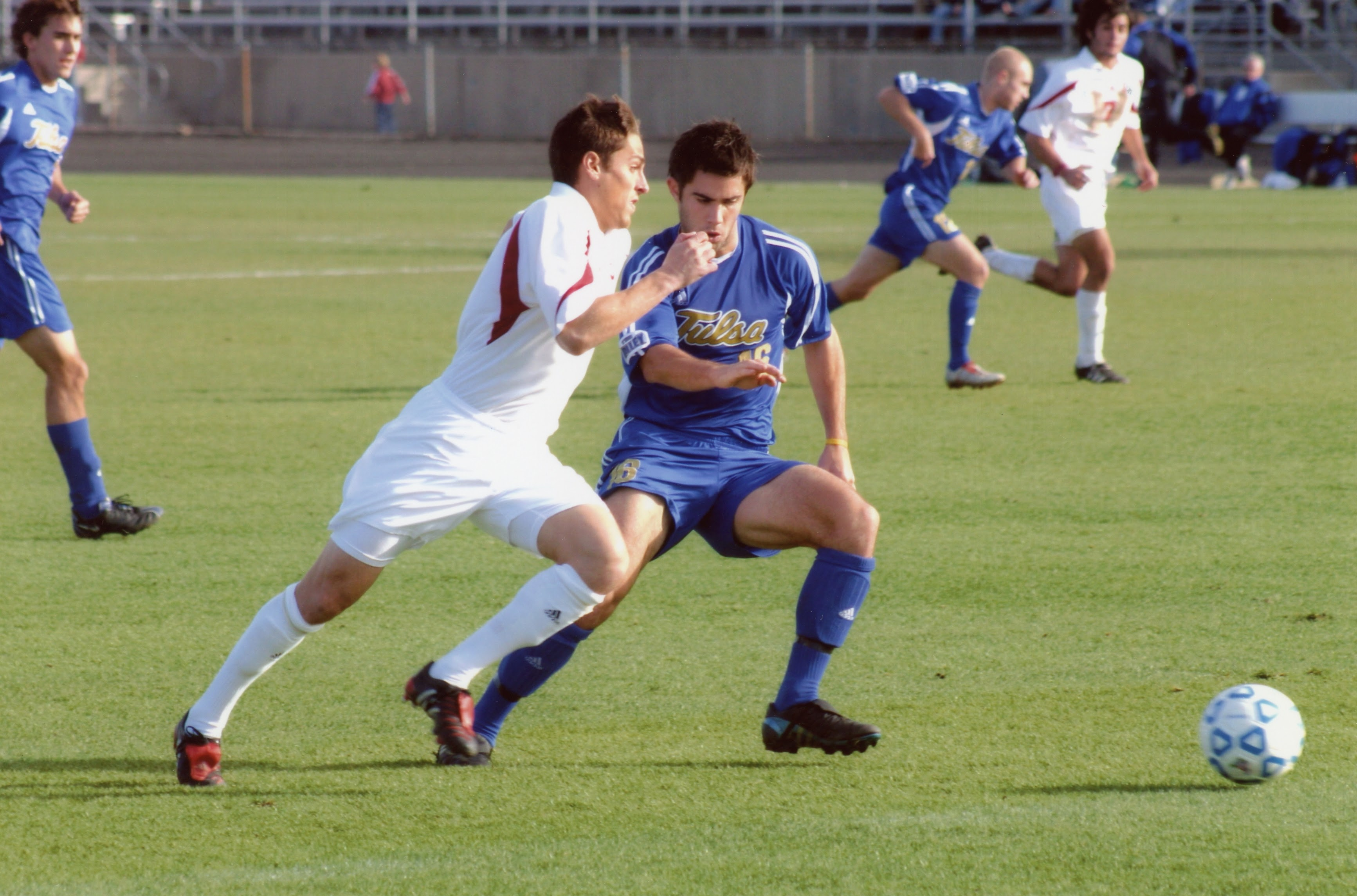 Pat Yates moves the ball forward for Indiana University in a 2004 NCAA tournament game against the University of Tulsa, by Rick Dikeman.